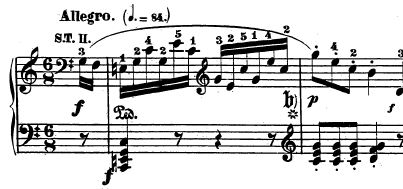 Incipit of the Allegro in the first movement from the Piano Sonata No. 13 (Beethoven) Op. 27, No. 1. in E-flat major (Quasi una fantasia).